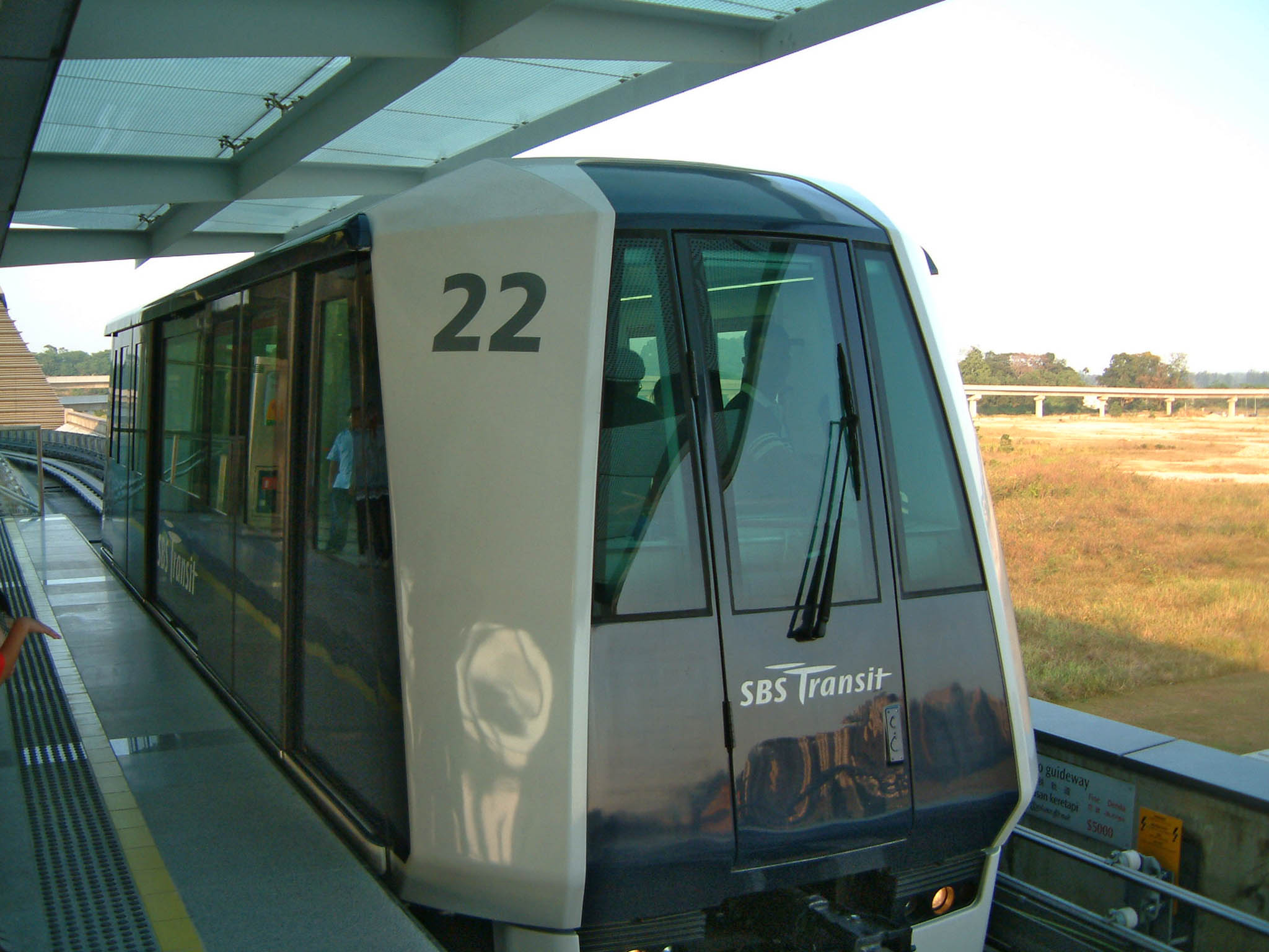 This pictures shows a Mitsubishi Heavy Industries Crystal Mover on the Punggol LRT line at Punggol MRT/LRT Station station in Singapore.